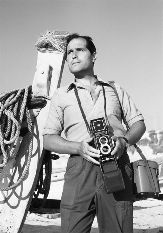 Photo that i took from my father